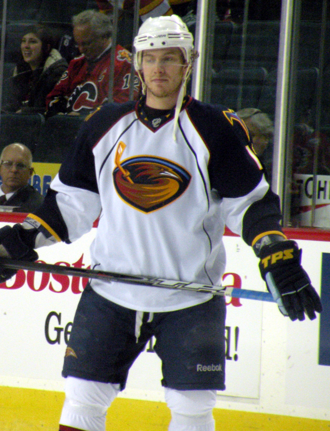 Atlanta Thrashers forward Bryan Little prior to a National Hockey League game against the Calgary Flames, in Calgary.